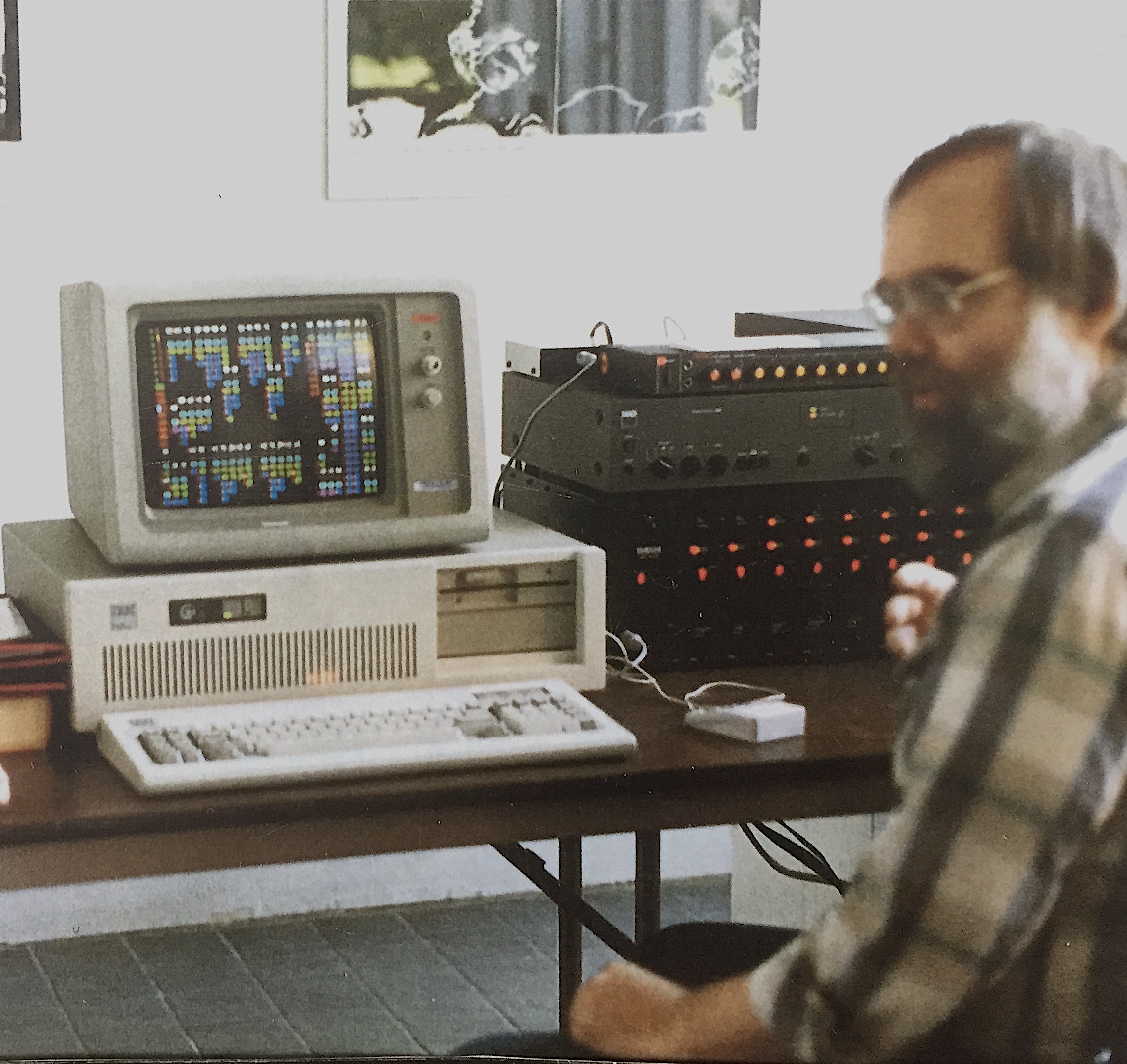 Exhibition Making Waves in Evanston, Chicago, curated by Diane Kirkpatric